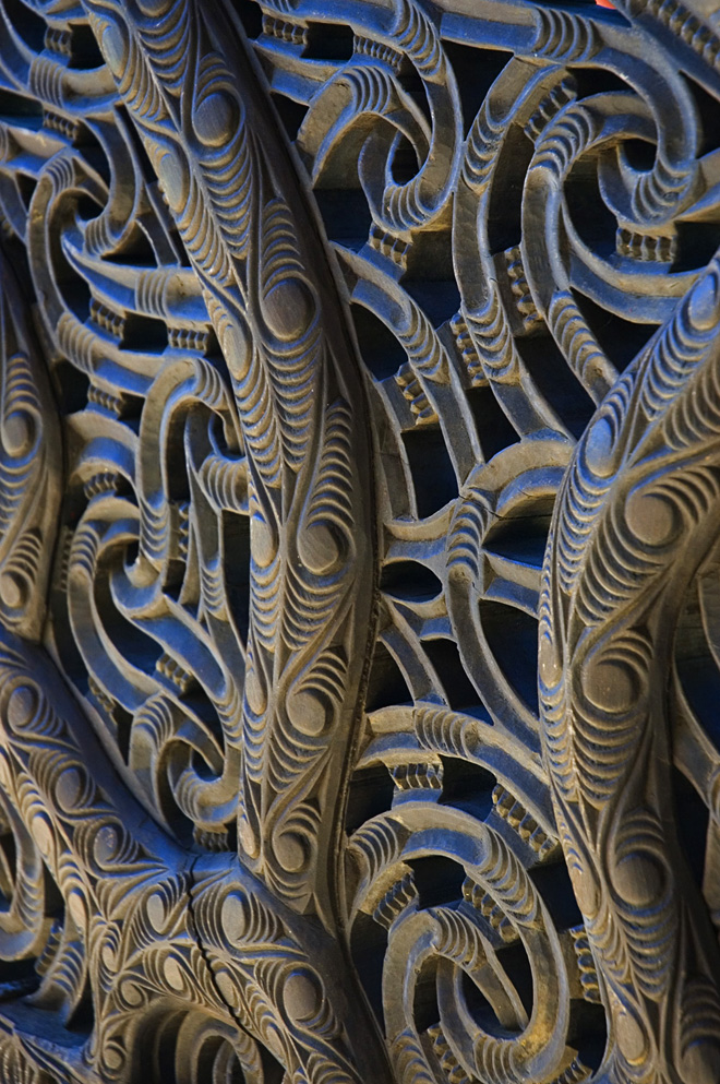 Detail of wood carving from the ceremonial Māori war canoe Ngātokimatawhaorua, Treaty Grounds, Waitangi, North Island, New Zealand, 16 January 2005.